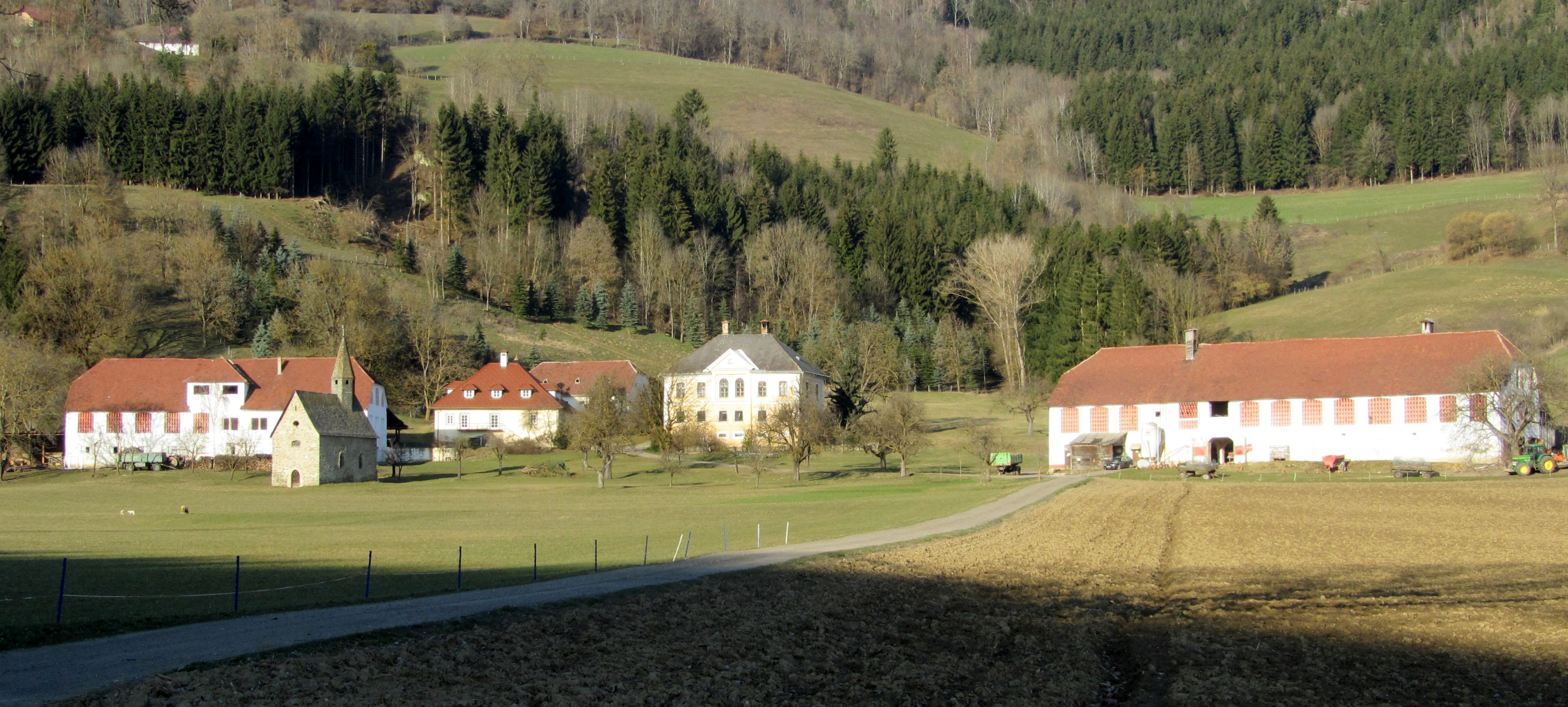 Rabenstein